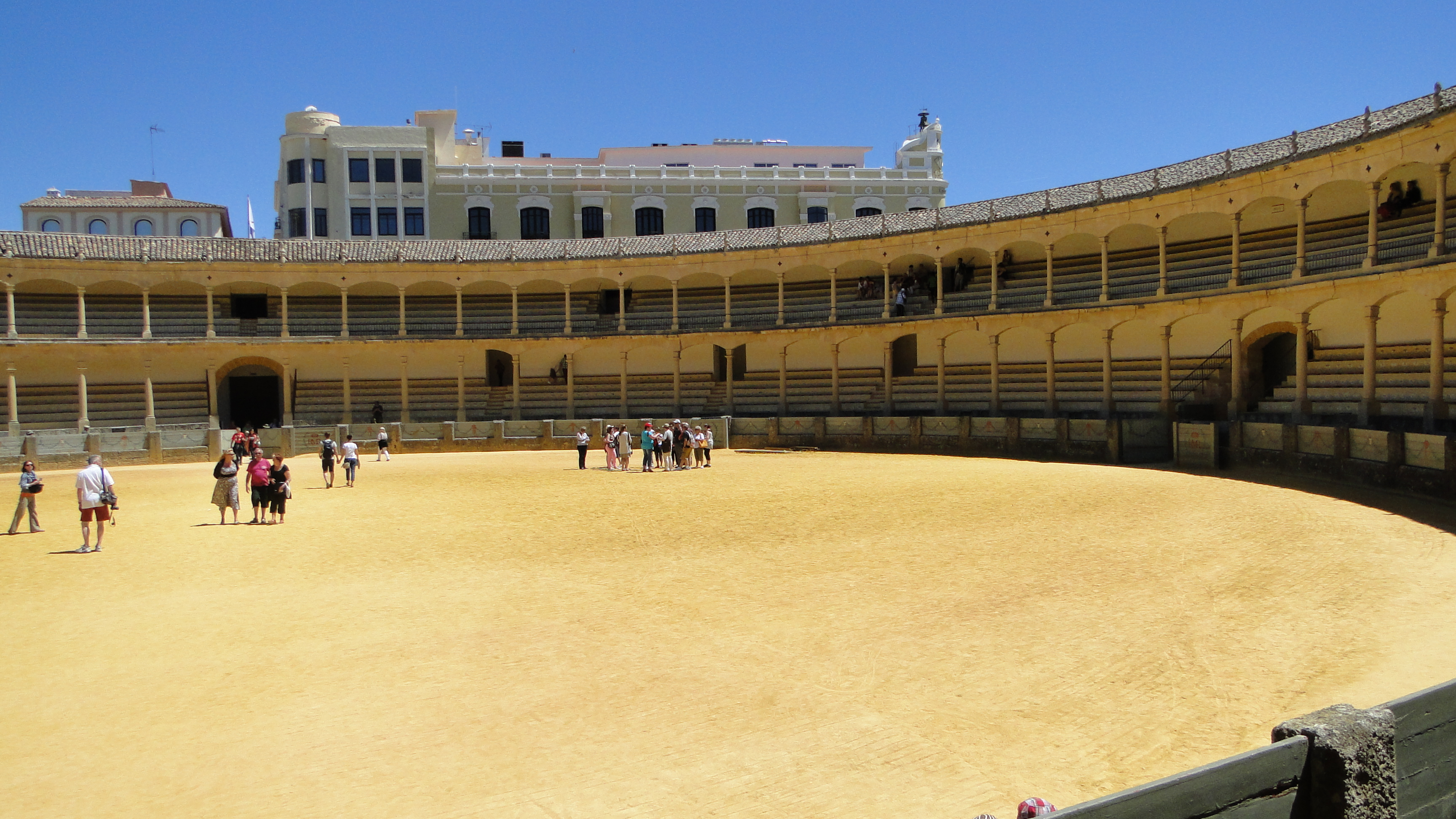 Part of the Plaza de Toros of Ronda